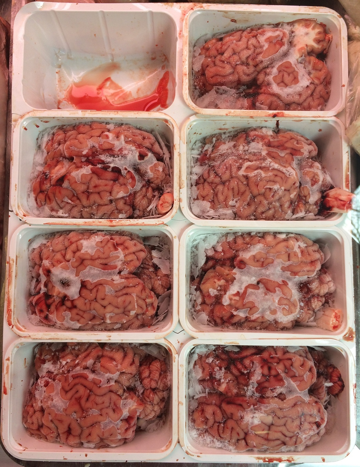 Brains sold as food on a market in The Hague (Netherlands). From an unknown animal, probably calf.